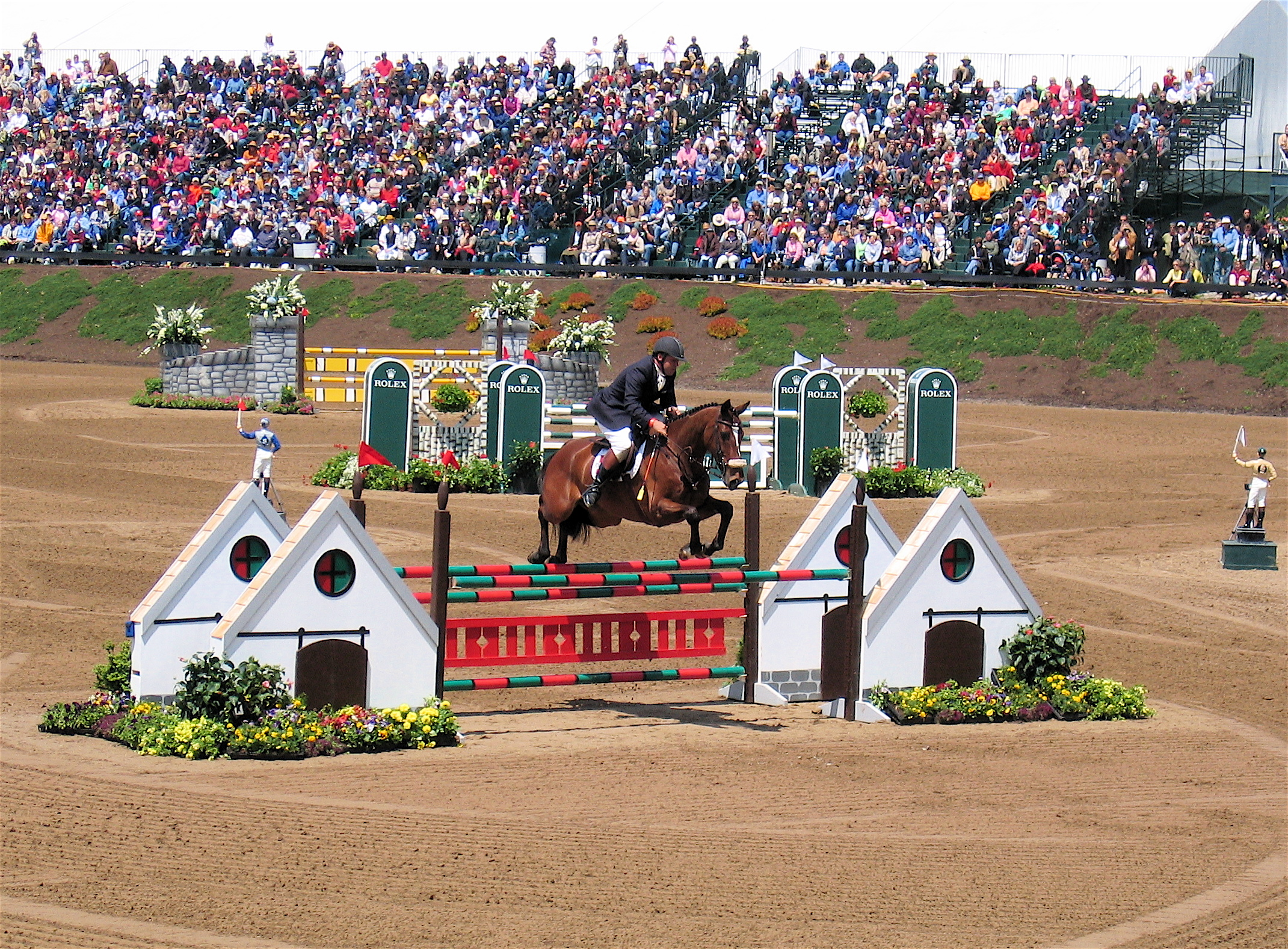 Rider in Stadium Jumping event at Rolex Three Day Event